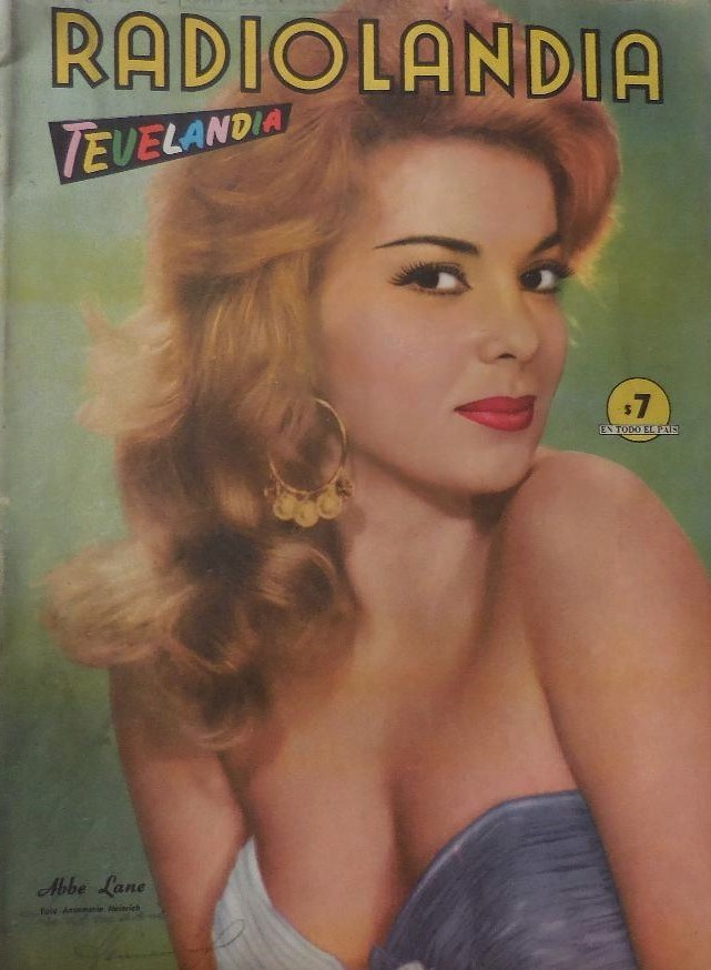 Abbe Lane on cover of Radiolandia, c. 1960. Photograph by Annemarie Heinrich